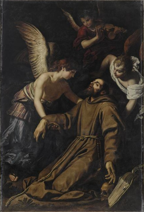 St Anthony comforted by angels after his stigmatisation